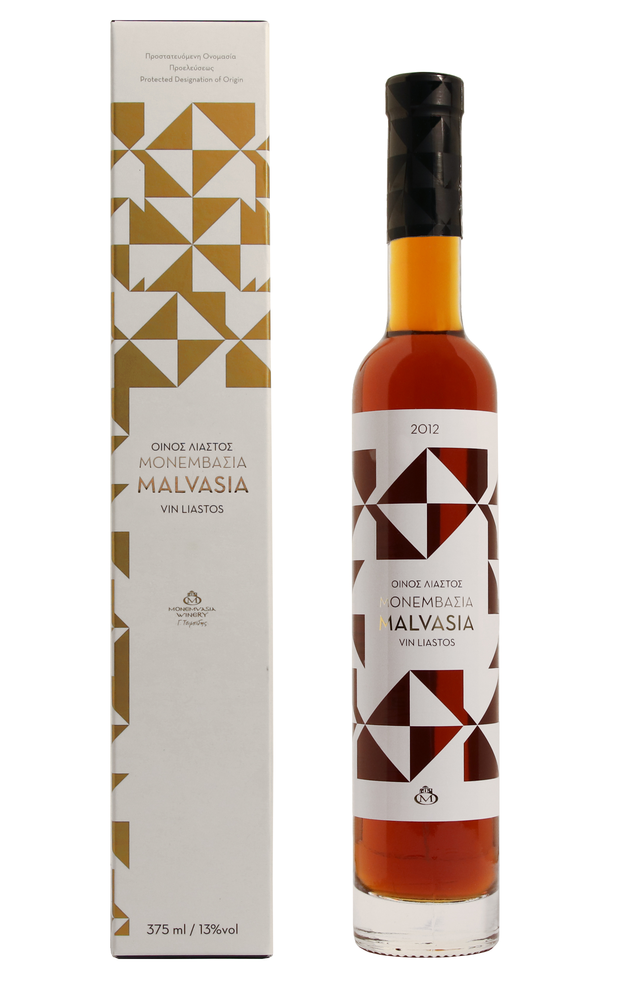 The PDO Malvasia Wine produced by Monemvasia Winery